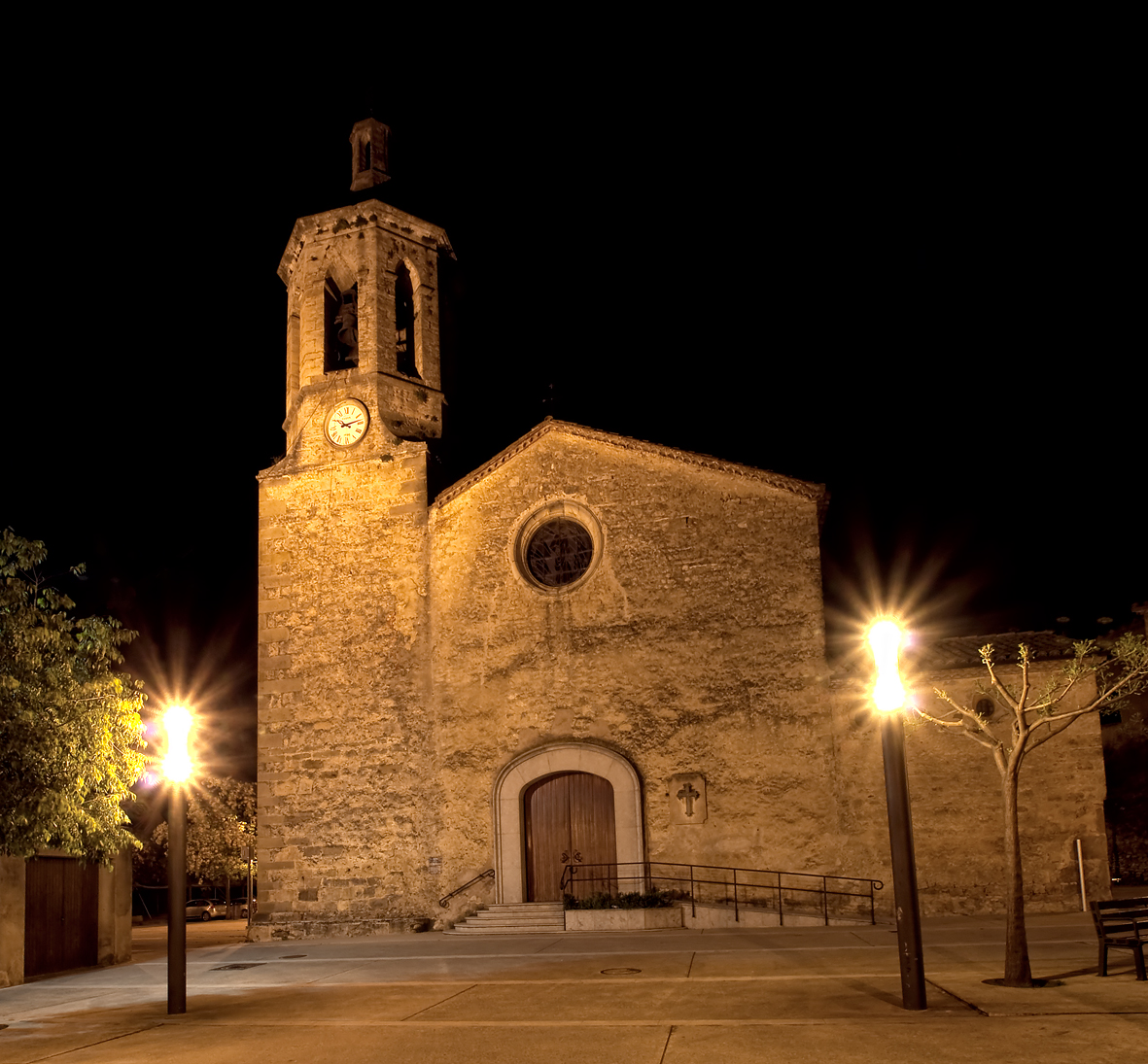 Cornellà de Terri Church (Catalonia, Spain)